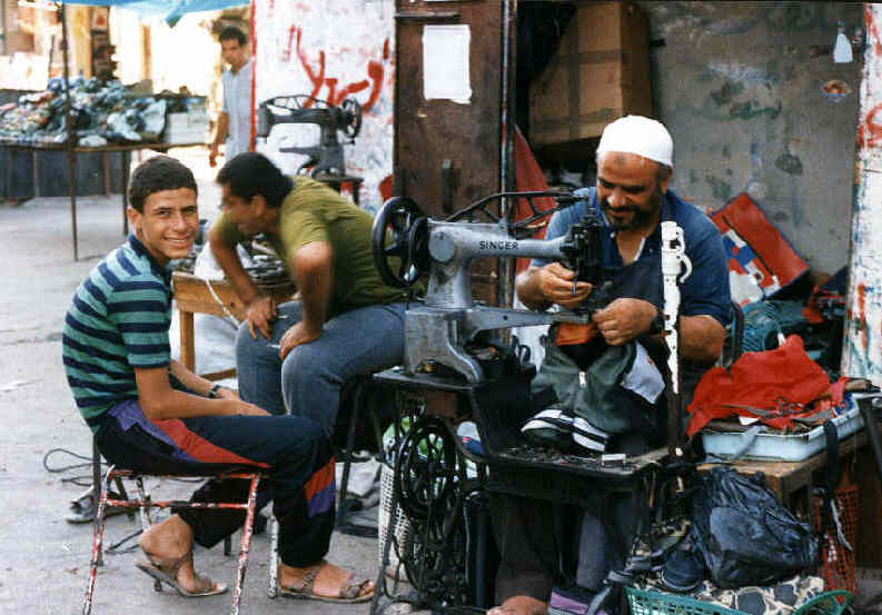 Summary: A Gaza man working a Singer sewing machine in a backyard business. Author: Erich Habich URL